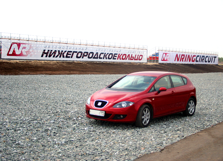 seat leon new. NRING